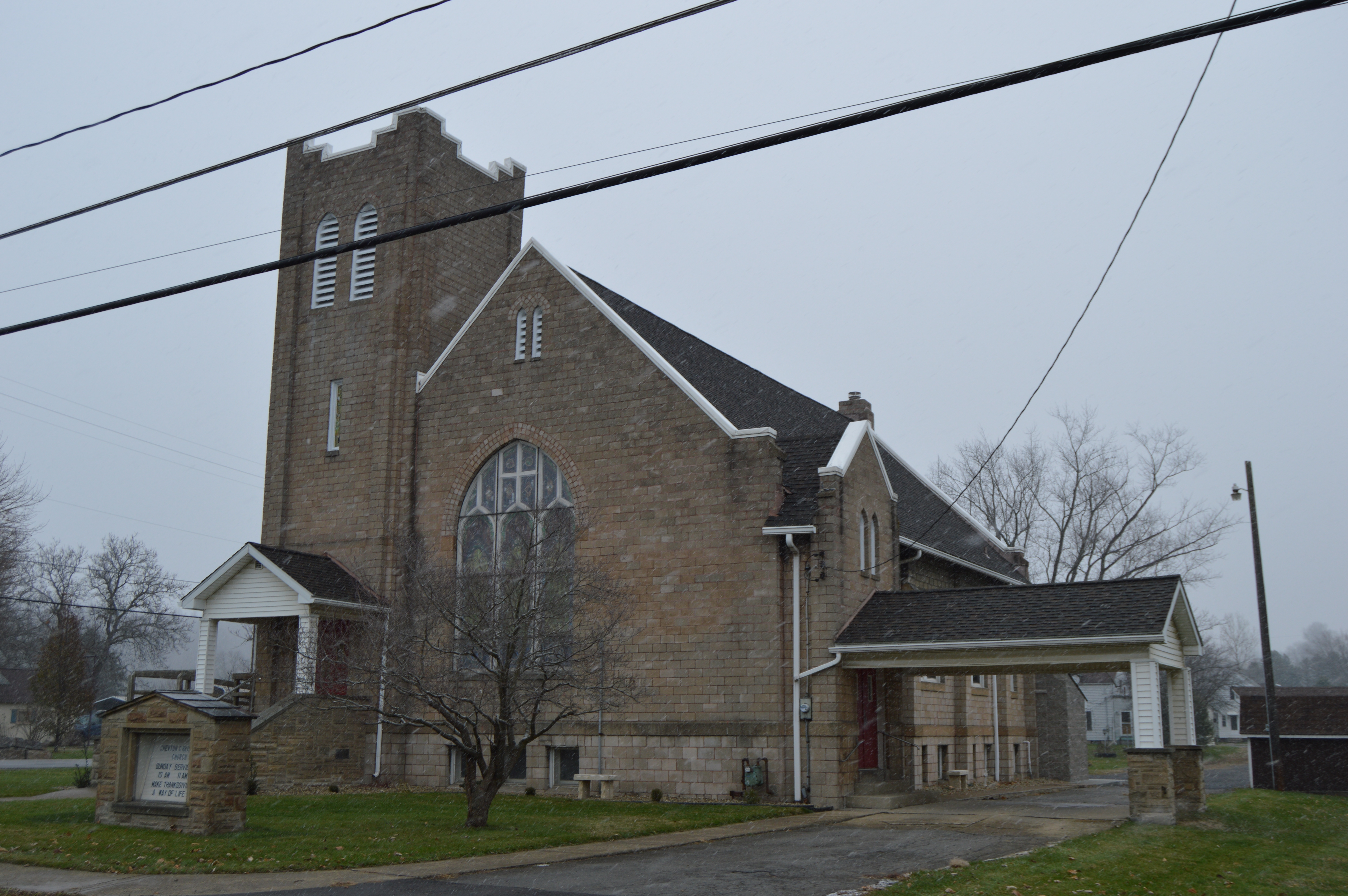 Front and eastern side of the Chewton Christian Church, located at 354 Oswald Street in Chewton, Pennsylvania, United States.